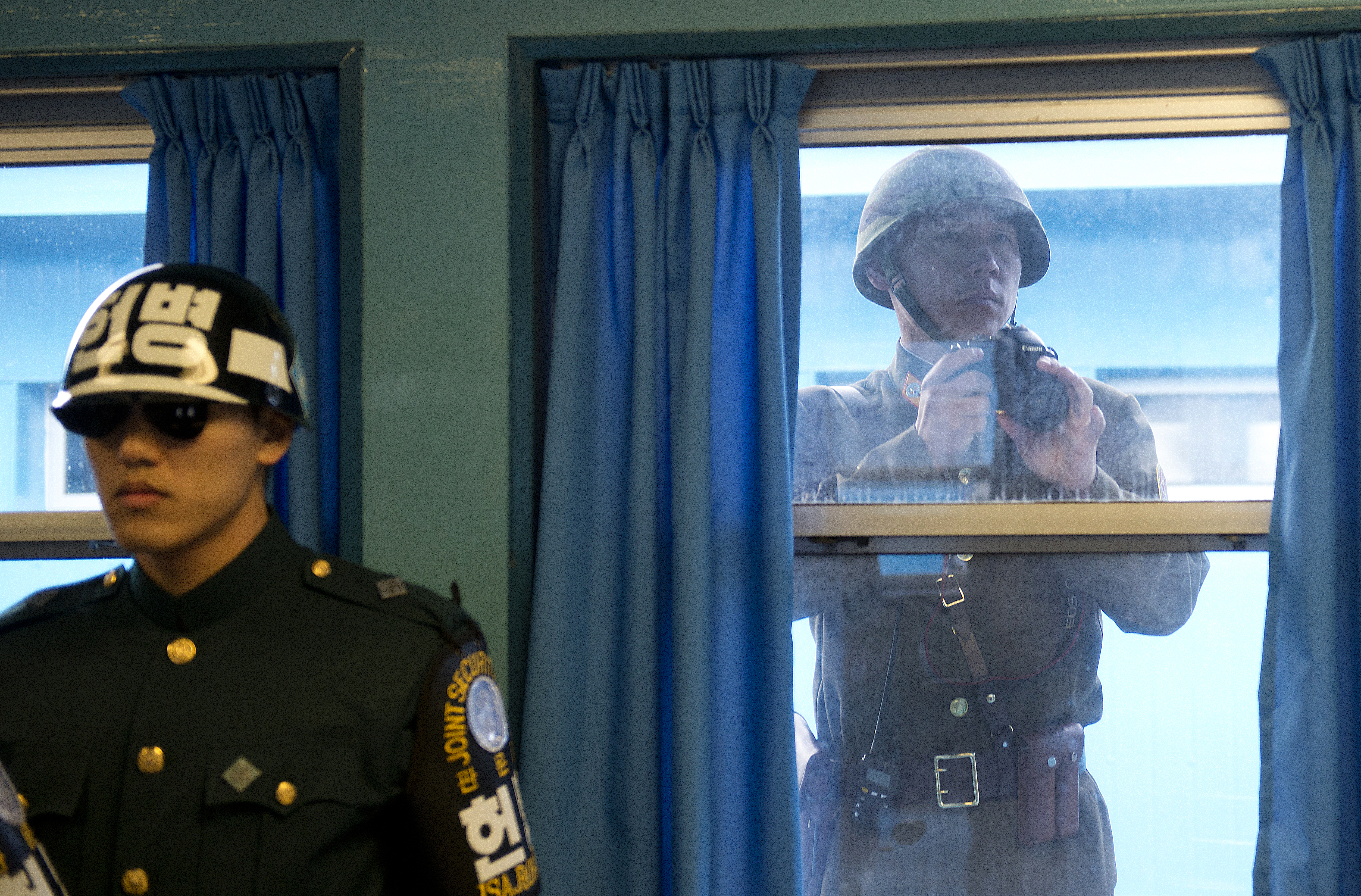 A North Korean soldier takes photos through the window while U.S. Army Gen Martin E. Dempsey, chairman of the Joint Chiefs of Staff, is briefed at the demilitarized zone in South Korea, Nov. 11, 2012. Date Taken:11.11.2012 Date Posted:11.15.2012 02:07 Photo ID:782882 VIRIN:121111-D-VO565-029 Resolution:5009x3297 Size:22.38 MB Location:SEOUL, 26, KR Read more